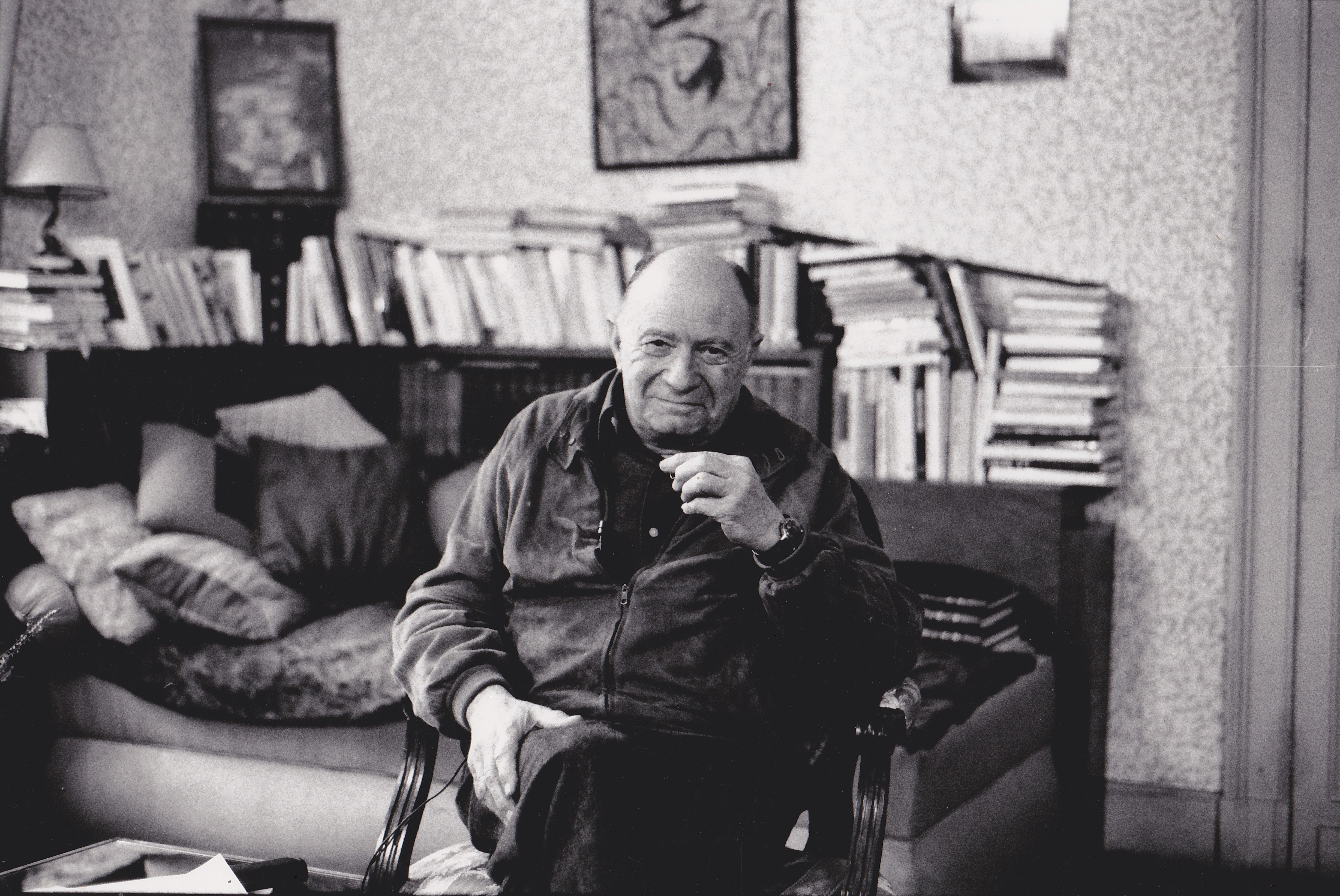 French sociologist and technology critique Jacques Ellul in his house in Pessac, France. Photo taken as part of the filming of the documentary "The Betrayal by Technology" by ReRun Productions, Amsterdam, Netherlands.